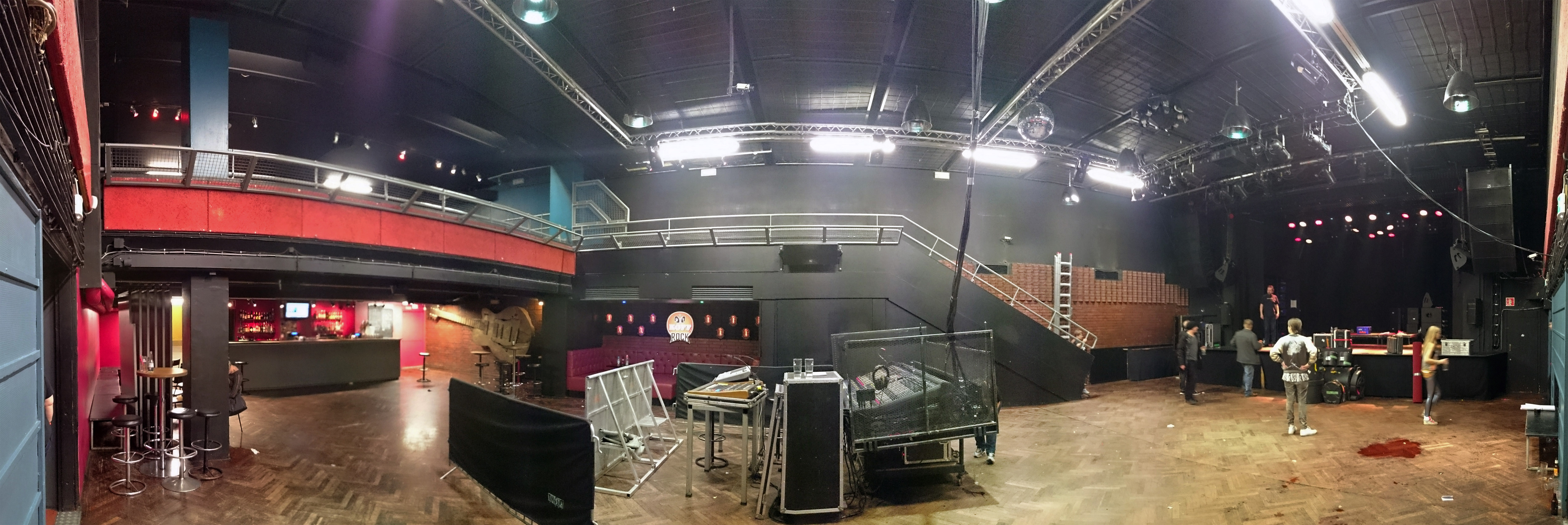 The Tavastia Club, Kamppi, Helsinki, Finland. Main stage photographed as a panorama.